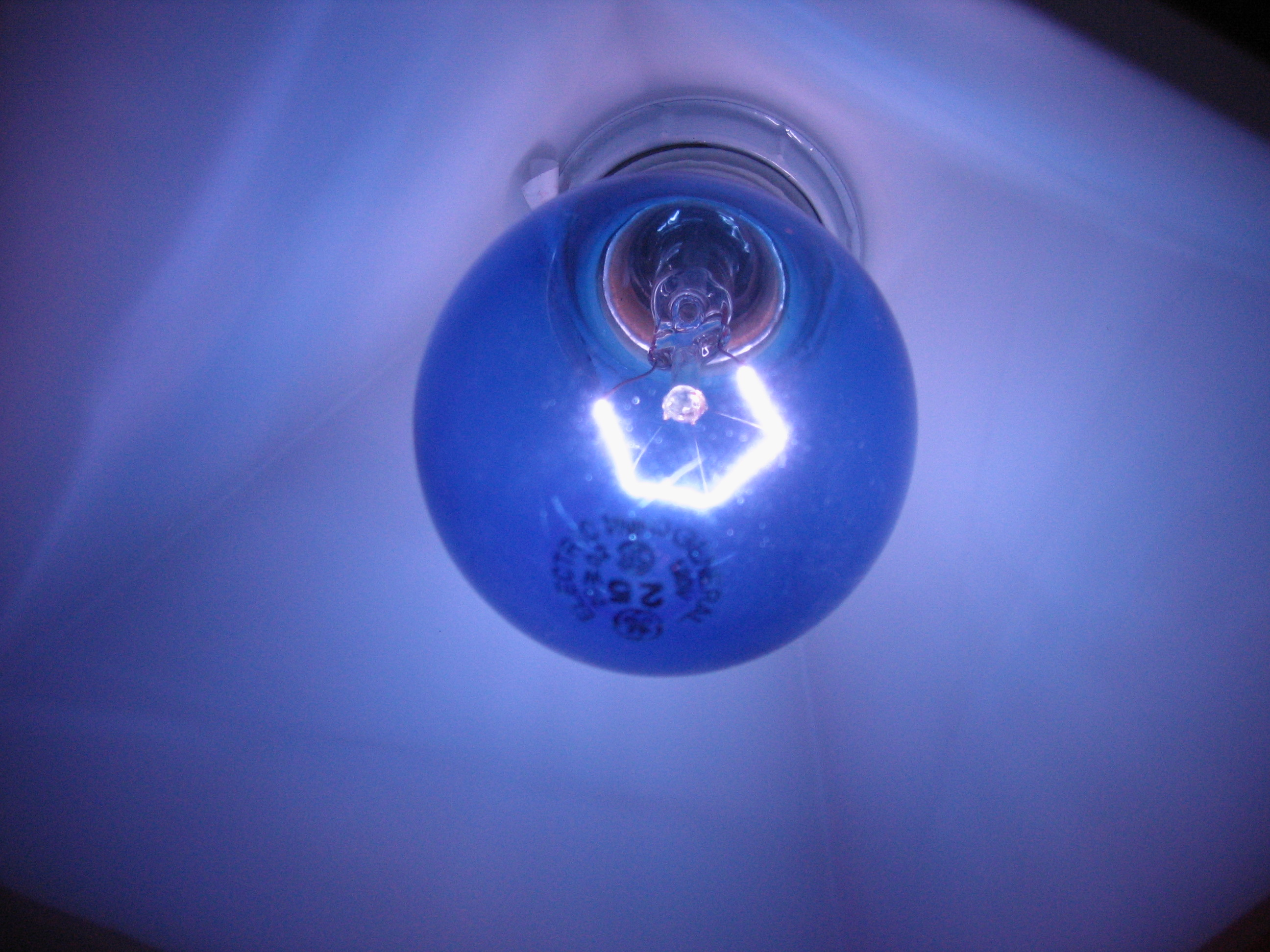 A blue incandescent light bulb